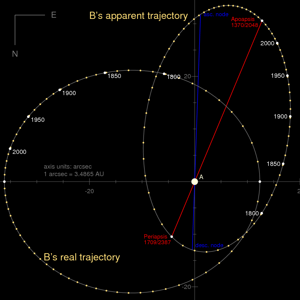 Trajectory of 61 Cygni B relative to A as seen from Earth (inclined ellipse) and from above (horizontal ellipse). Axis unit is arcseconds, where 1 arcsec = 3.4865 AU. Orbital data from: Hartkopf, W. I.; Brian D. Mason, B. D.: "Sixth Catalog of Orbits of Visual Binary Stars", U.S. Naval Observatory. Parallax from SIMBAD (retrieved 2011-08-09; note that these values may be updated from time to time, and thus en.wikipedia may use another value due to different access dates. The size of the time steps (points) is 678/68 ≈ 9.97 years. North is down, East to the right.